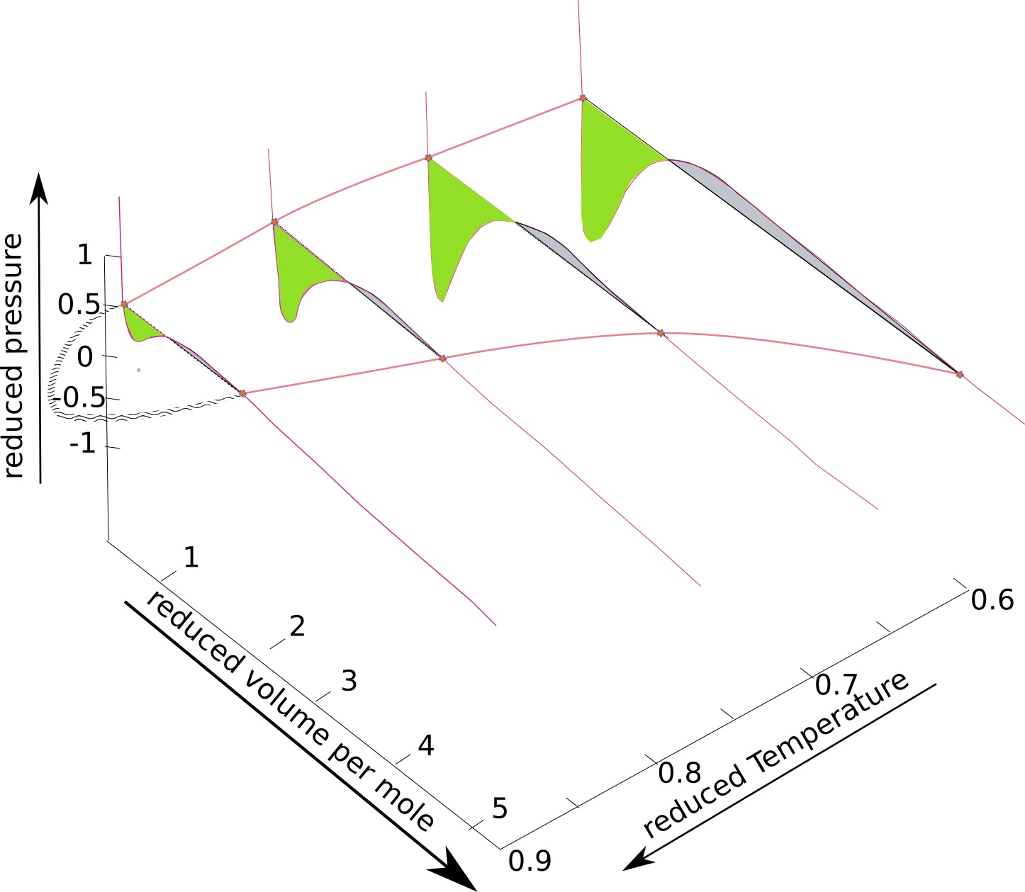 Maxwell construction for van der Waals fluid